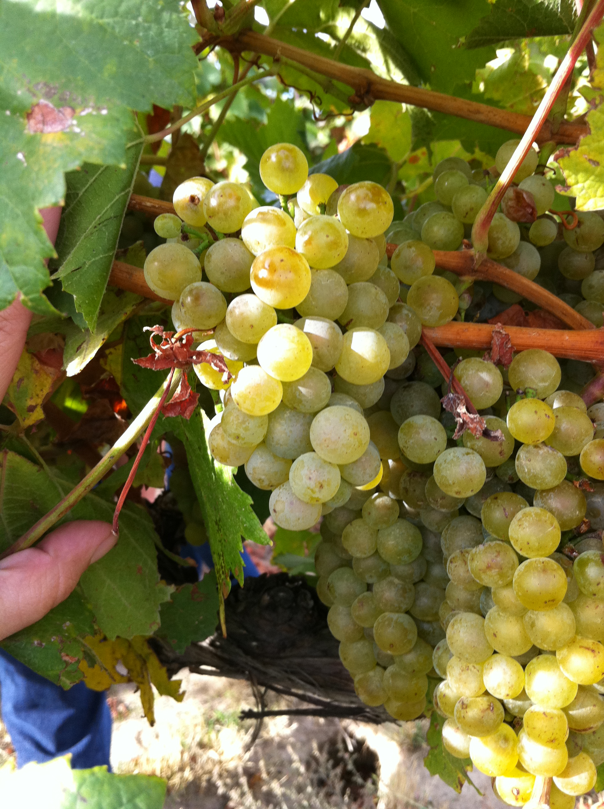 Chardonnay clusters from Wyckoff vineyards in the Yakima Valley of Washington State